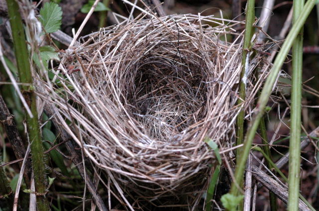 Erithacus rubecula from Commanster, Belgian High Ardennes .